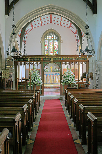 Interior of St Stephen's church, Sparsholt for exterior see 57724.